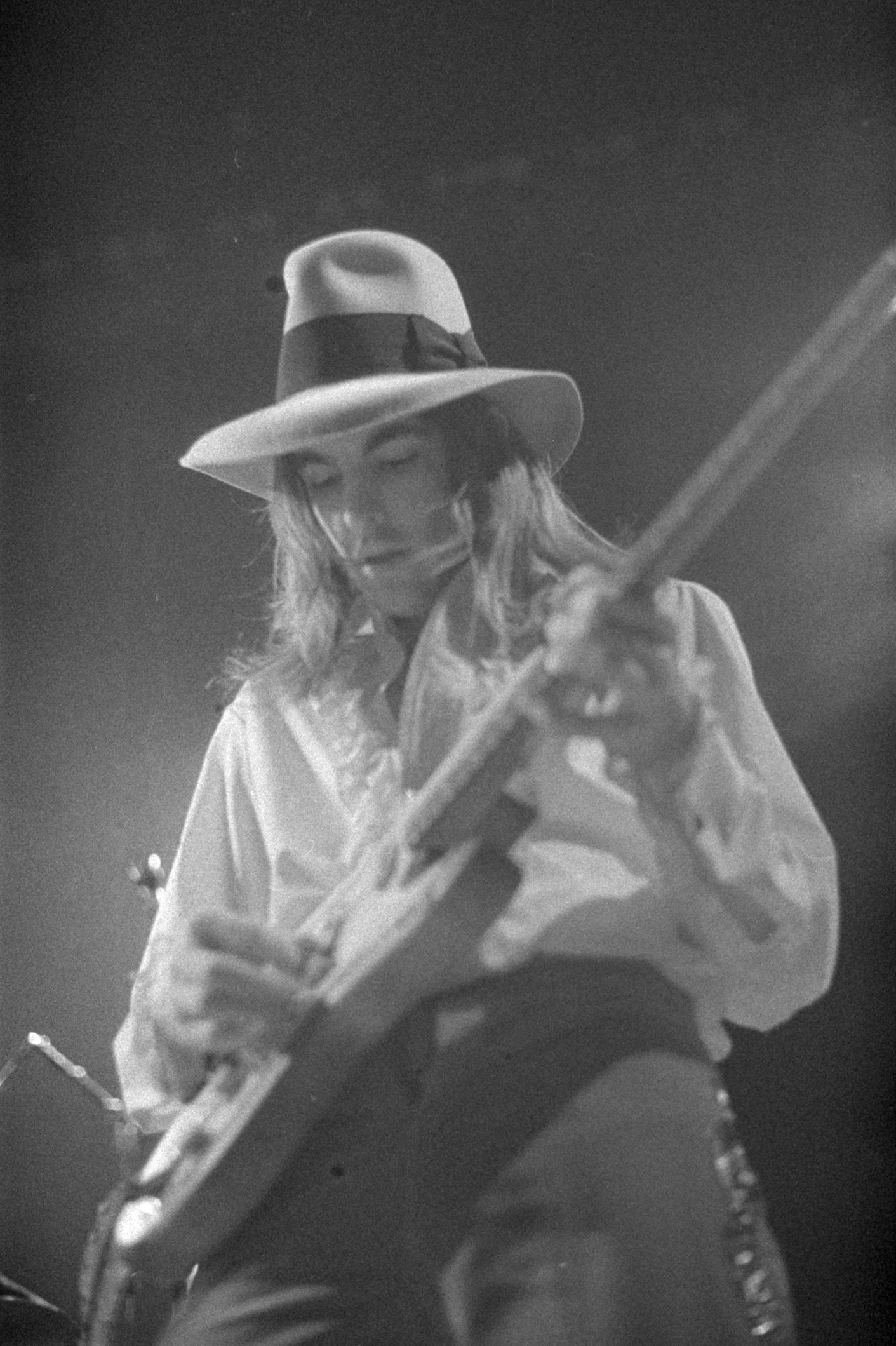 Unknown.